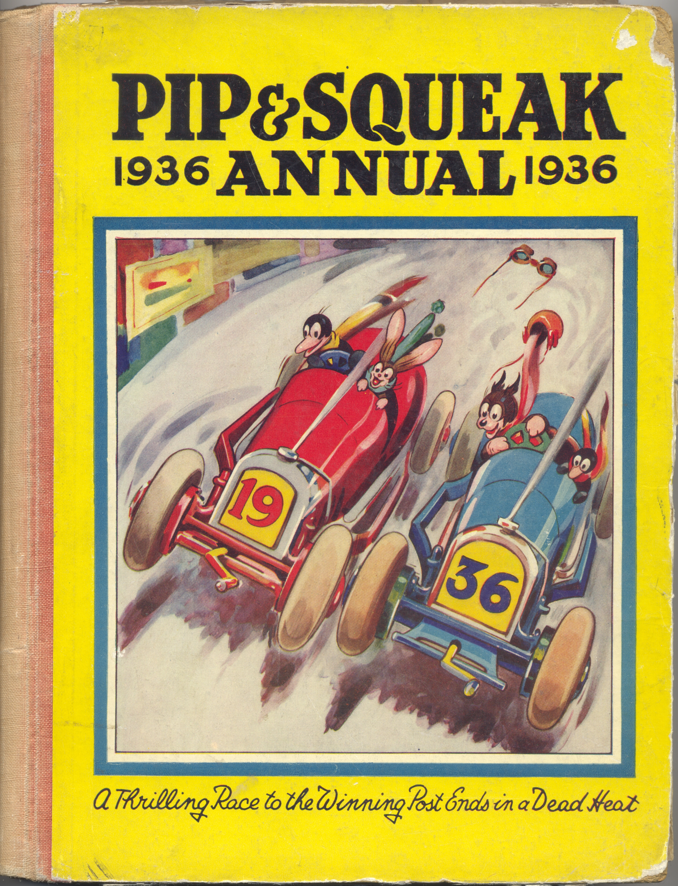 Cover of the Pip & Squeak Annual 1936 - Pip and Squeak are driving racing cars. Wilfred and Little Stan are passengers. The caption reads: "A thrilling race to the winning post ends in a dead heat."